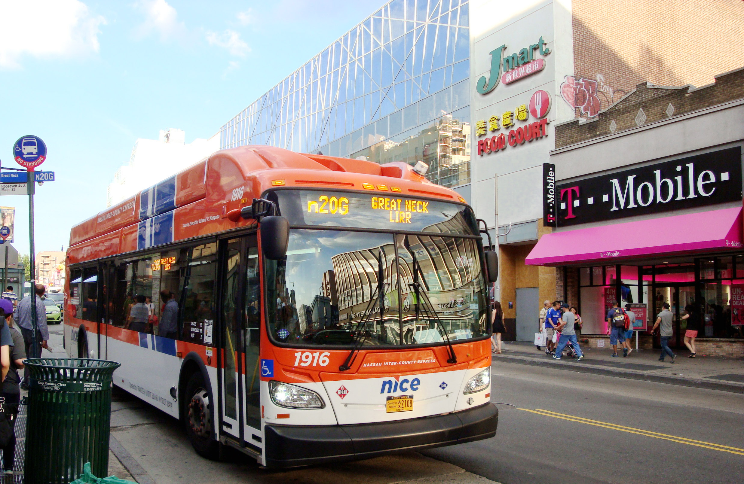 Nassau Inter-County Express bus, runs on route N20G. Photographed in Flushing section of Queens, New York City